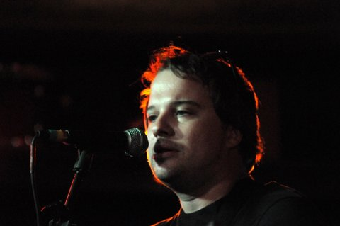 Jordan White performing live at The Stanhope House in Stanhope New Jersey